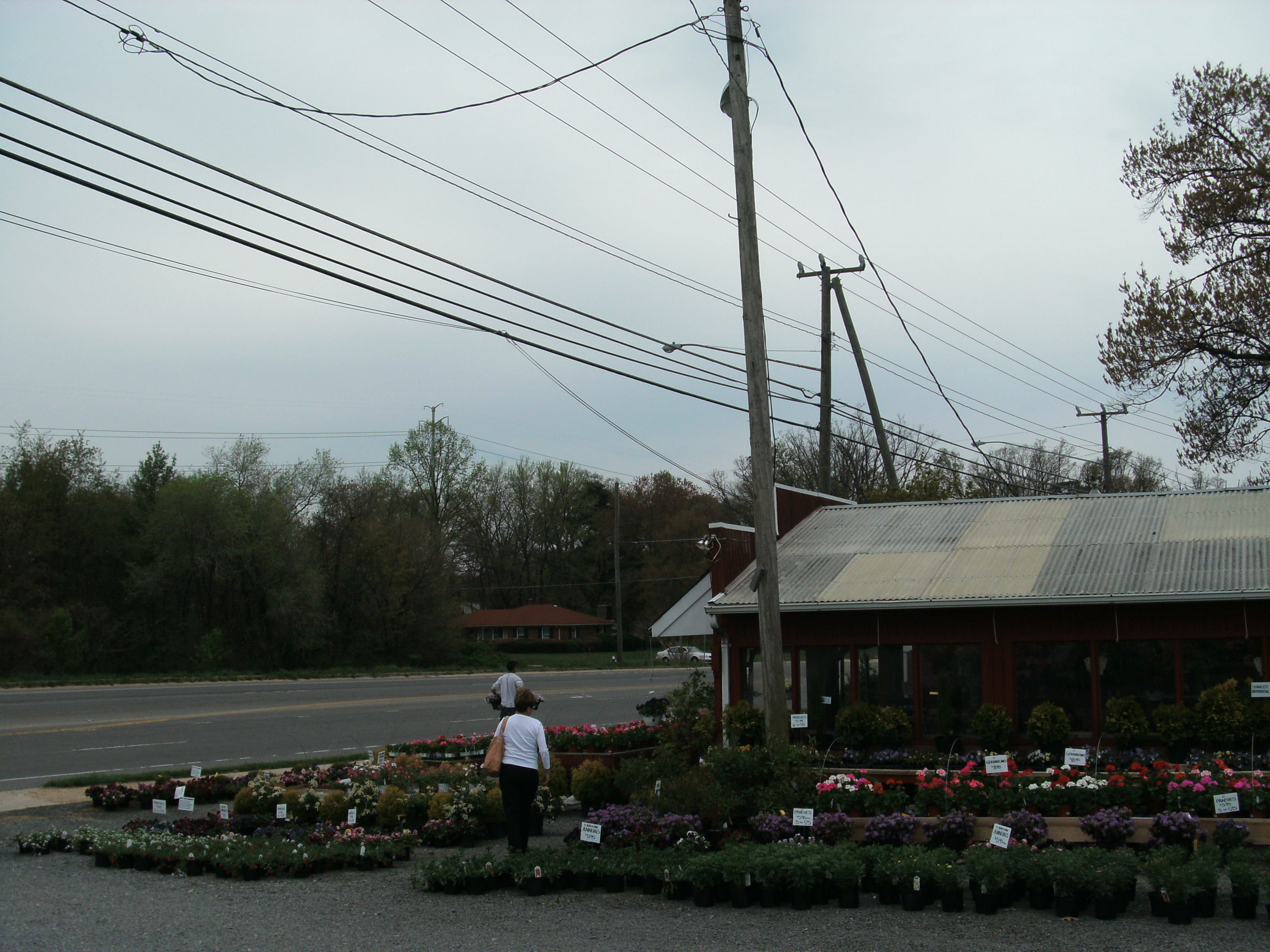 Image taken by me for Wikipedia